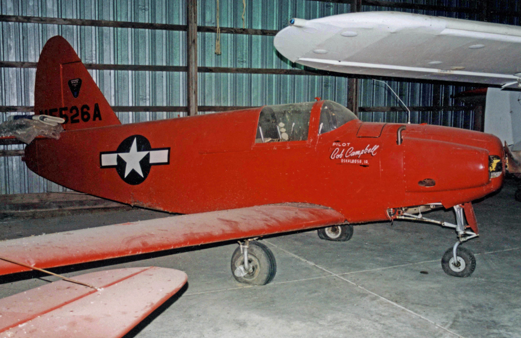 Culver PQ-14B target drone converted to a civilian model NR-D. Airpower Museum, Antique airfield, Blakesburg, Iowa.